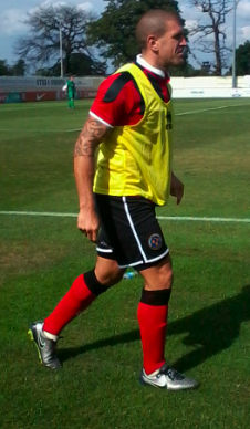 Adam El Abd pictured in 2016